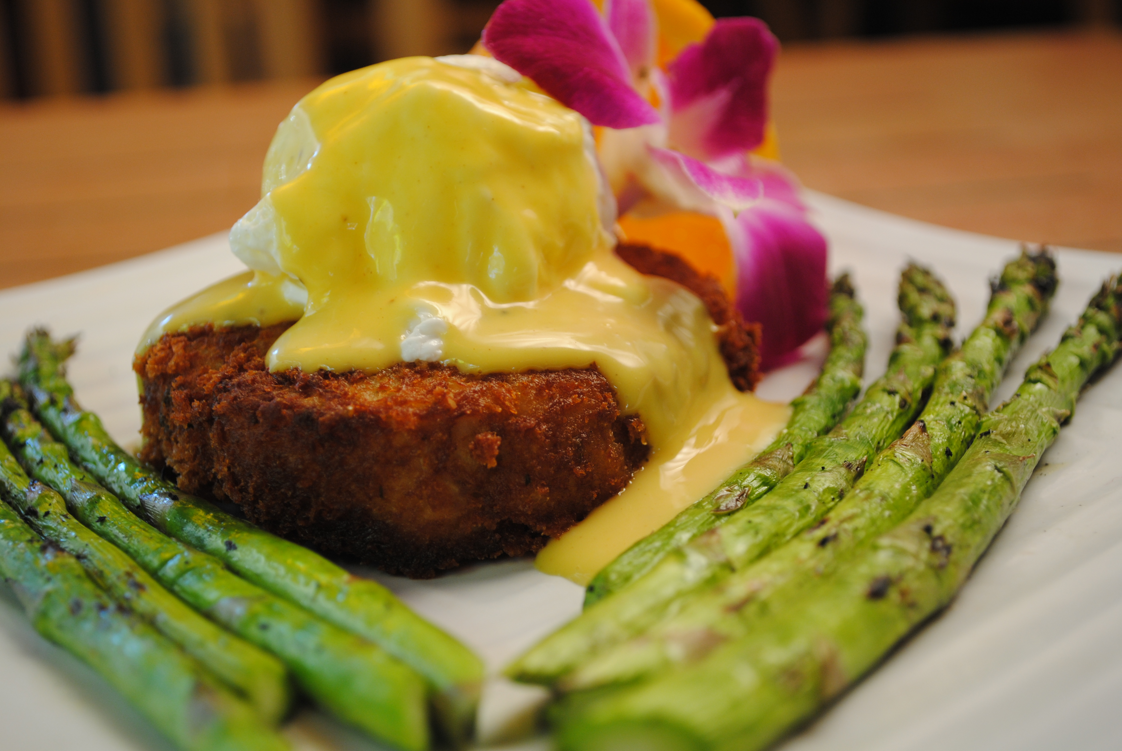 Photographer's caption: "Crab Cake Benedict. A lightly fired cake cake topped with a poached egg and Key Lime Hollandaise sauce. Served at the Siesta Key Oyster Bar. Siesta Key Florida." (located at 5238 Ocean Boulevard)